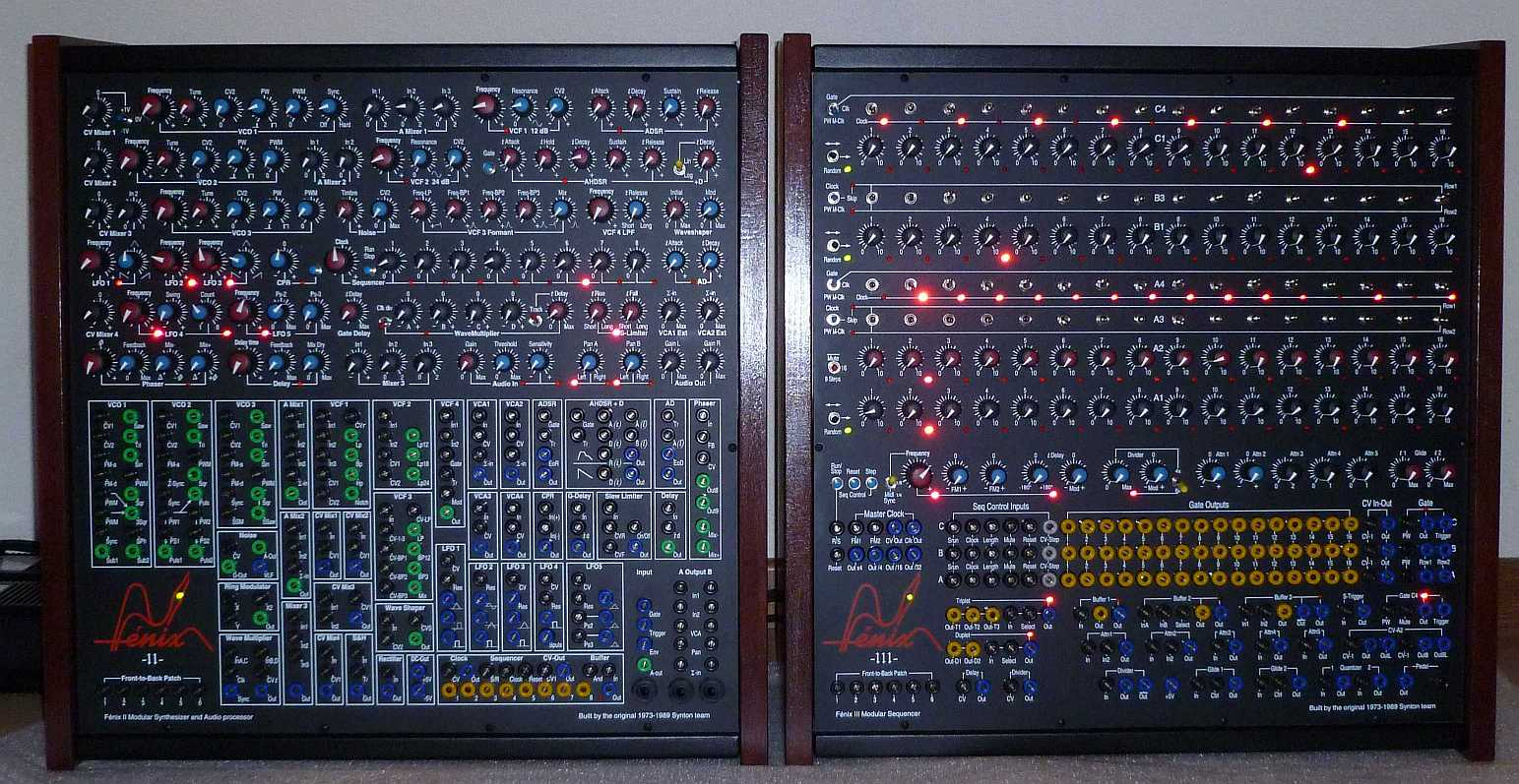 Fénix II and III with wooden side panels